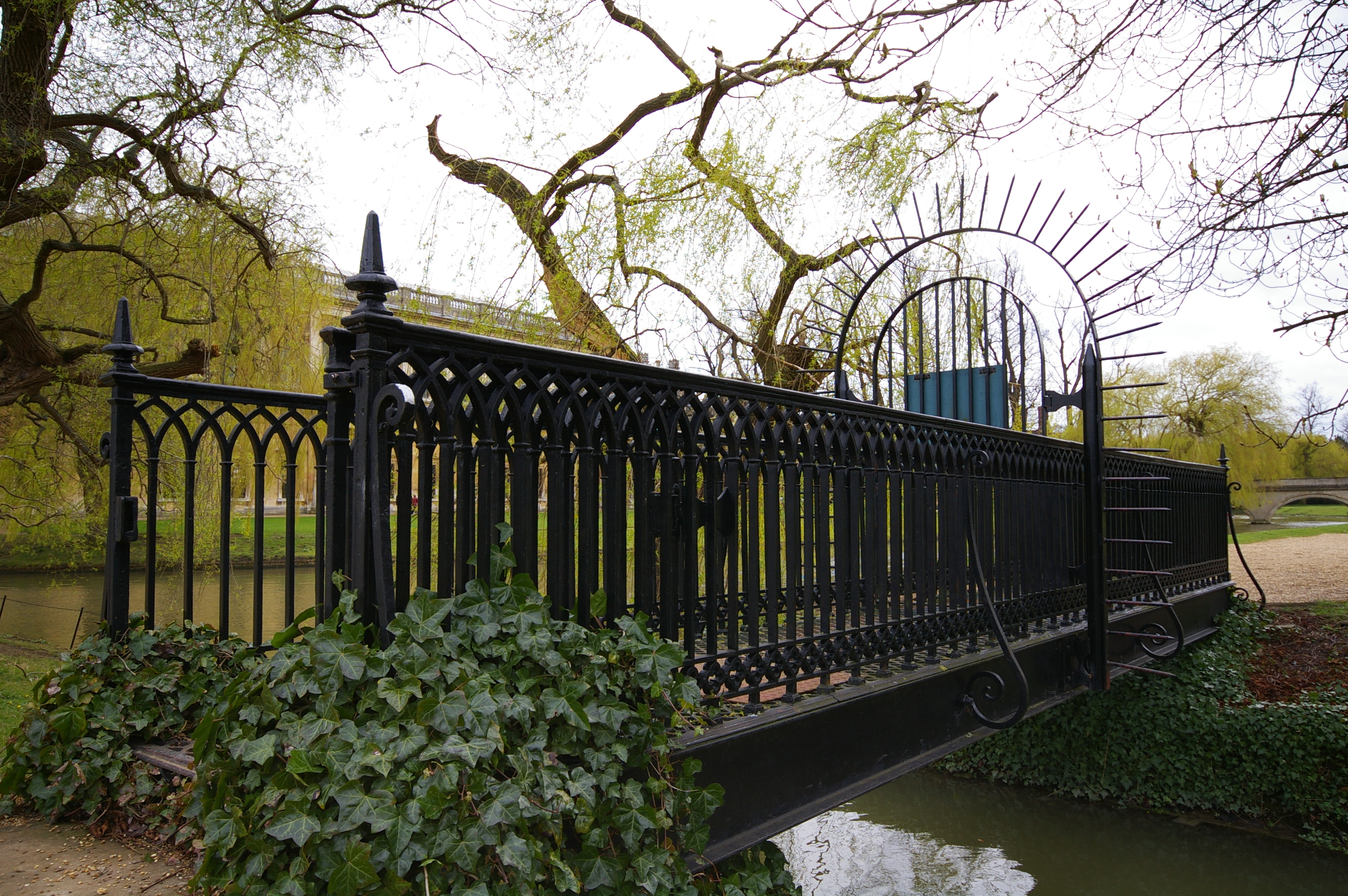 Bridge between John's and Trinity This bridge crosses the drain separating Trinity and St John's Colleges on the Backs. The gate usually seems to be locked.